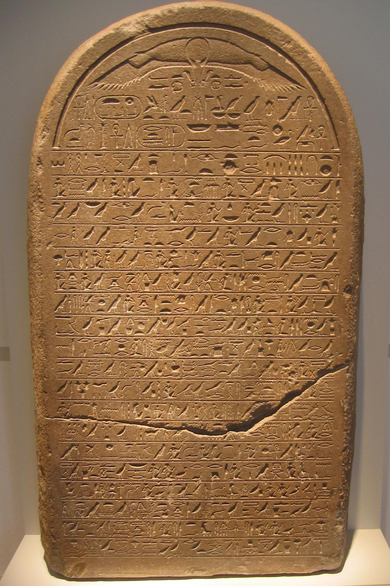 Border Stela of Senusret III. Middle Kingdom of Egypt, 12th dynasty, c. 1860 BC, Collection: Ägyptisches Museum Berlin